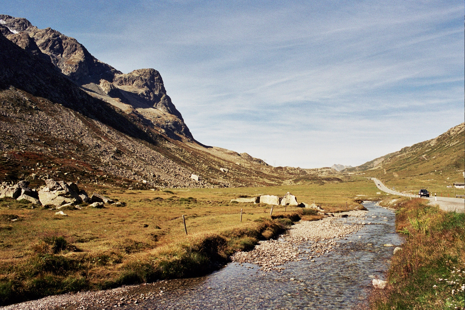 Road to Julierpass, Switzerland